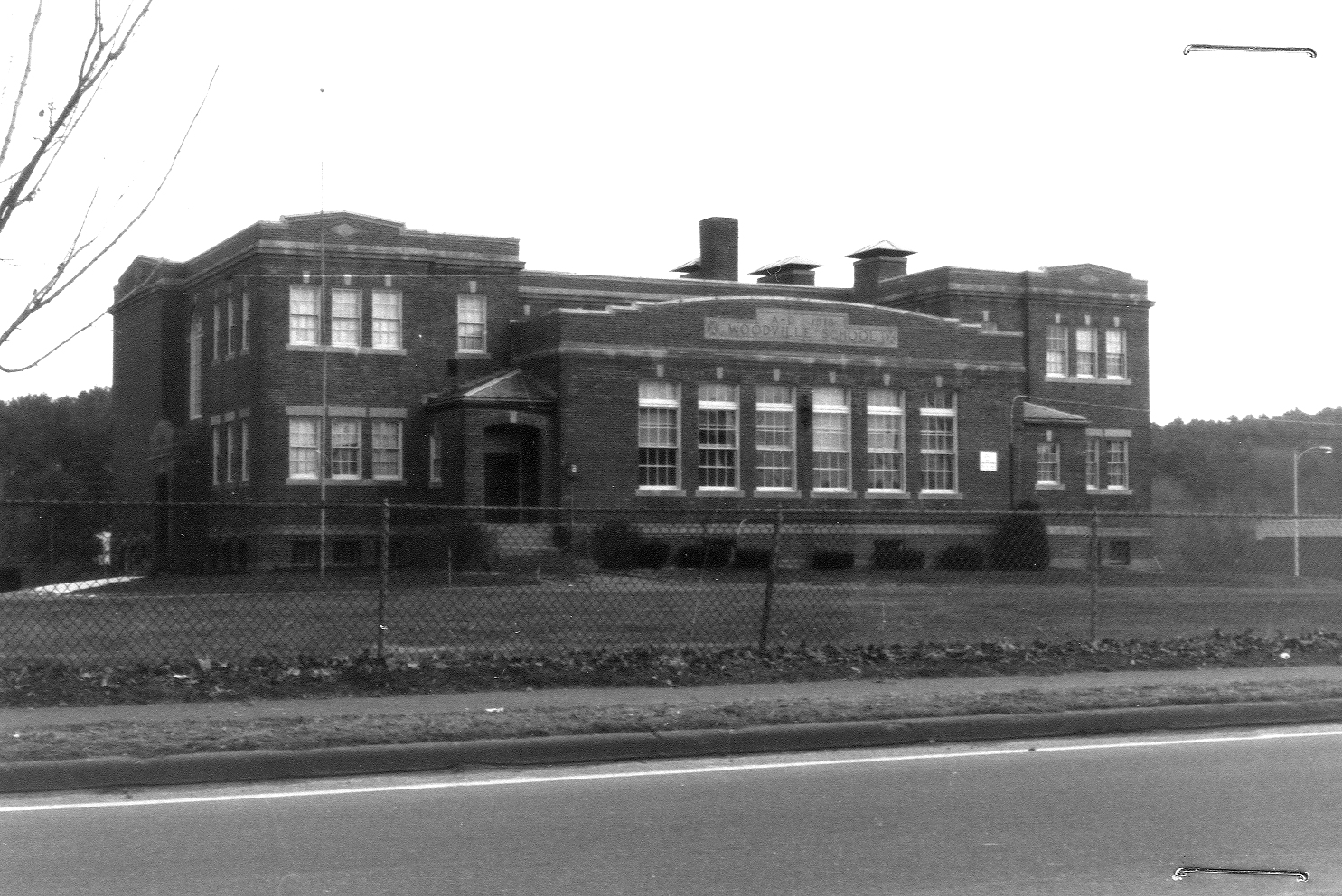 The old 1919-20 Woodville School in Wakefield, Massachusetts. This building has been demolished, replaced by a new building c. 2009.